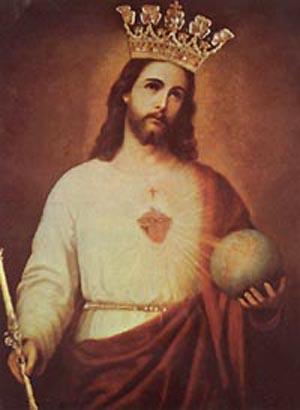 Image of the Consecracion of Ecuador to the Sacred Heart of Jesus by President Garcia Moreno in 1873, propagated by Father Mateo